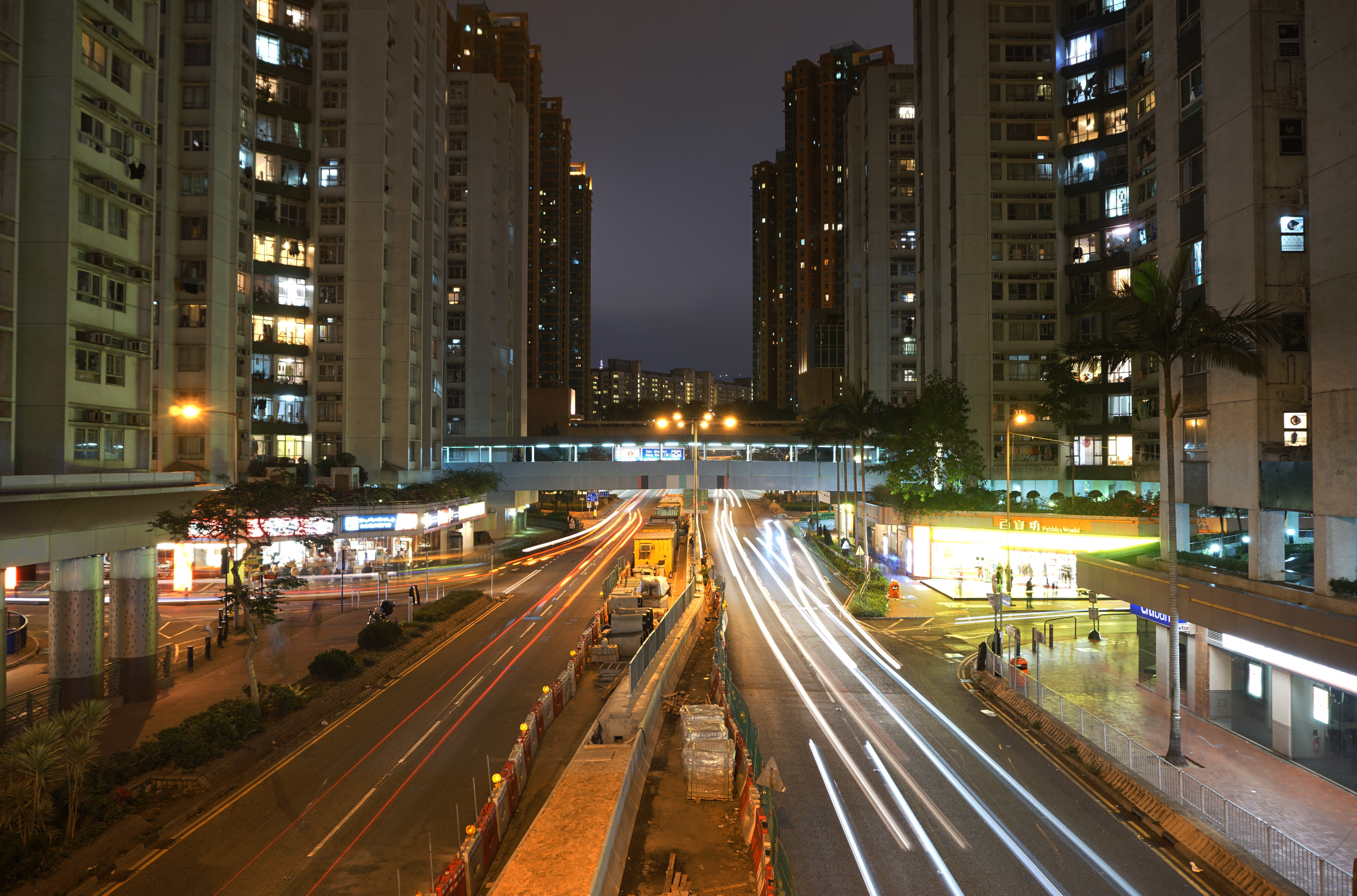 Hung Hom Road in Whampoa, Hong Kong.